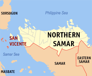 Map of Northern Samar showing the location of San Vicente